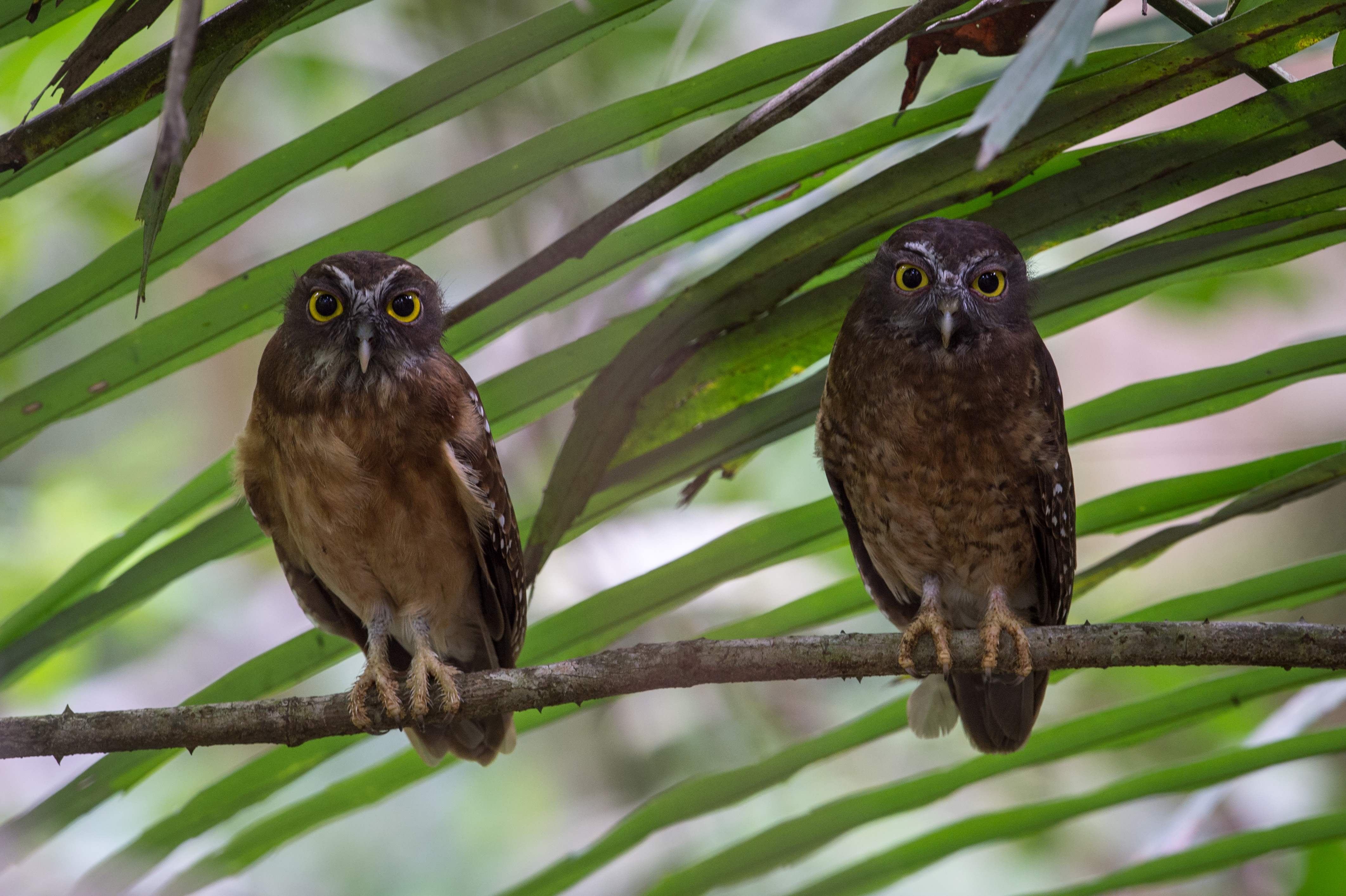 Ochre-bellied Boobook